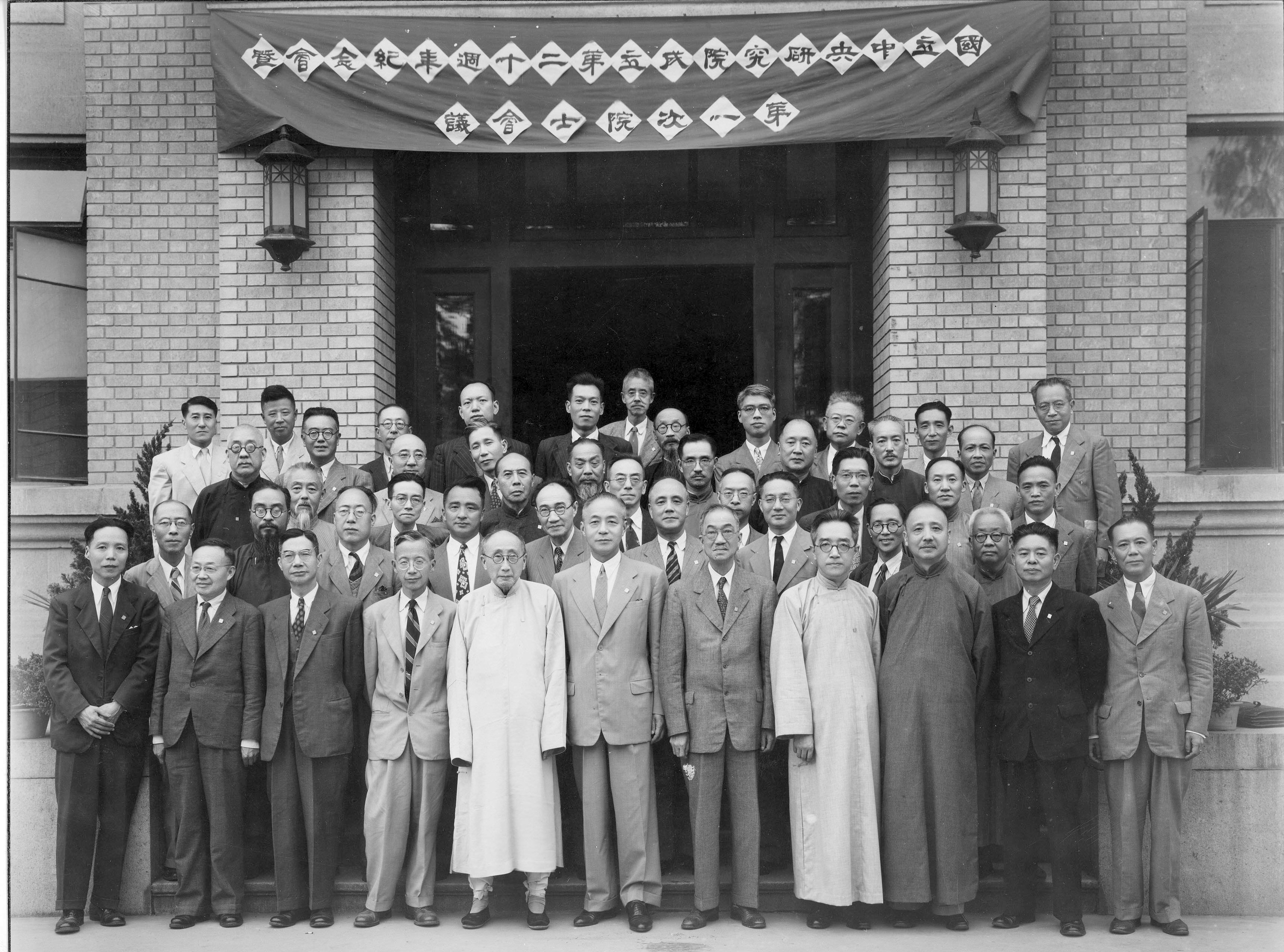 Members of Academia Sinica in 1948